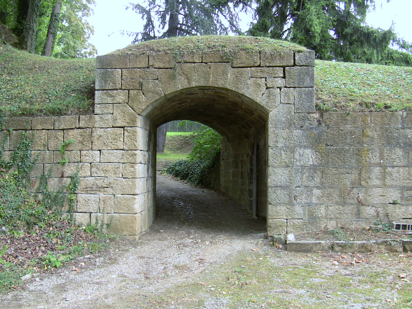 A pedestrian tunnel, located in the Fort Griffon, in Besançon (Doubs, France)